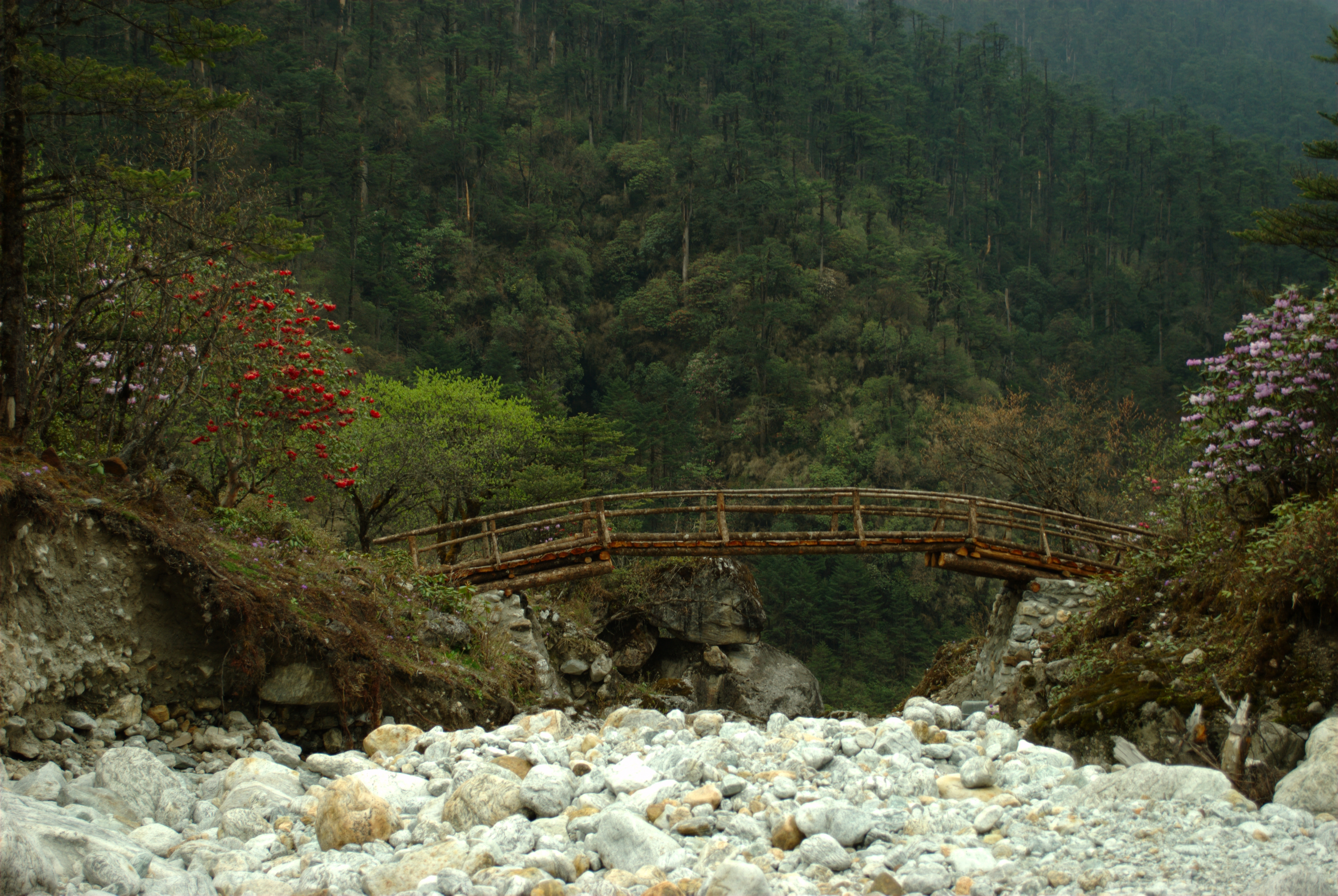 Feels like a perfect place for lovers.. Flowing water is missing. This is place is on the way to yumthang valley in Sikkim.